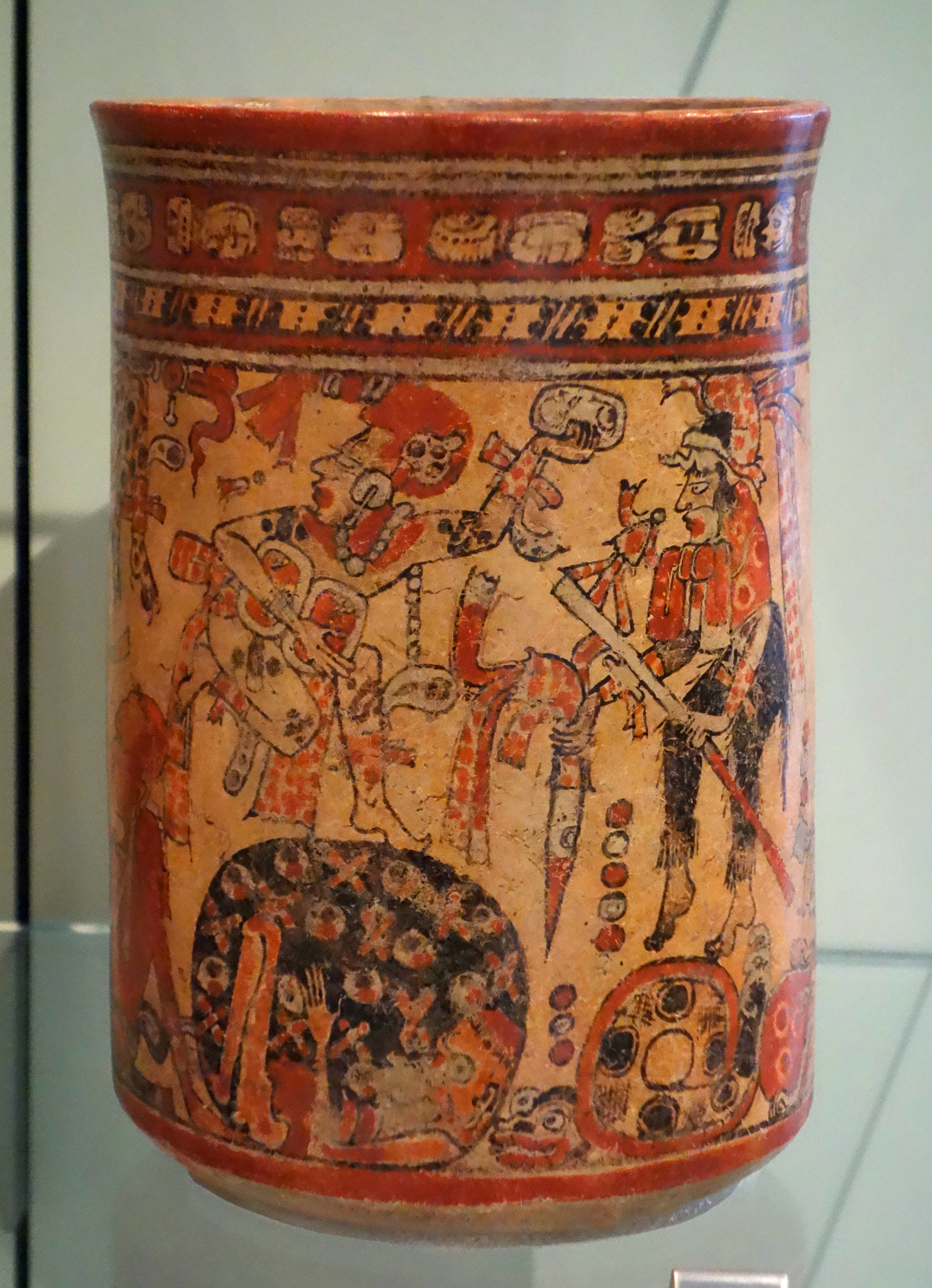 Exhibit in the Royal Ontario Museum, Toronto, Ontario, Canada. This work is old enough so that it is in the public domain.